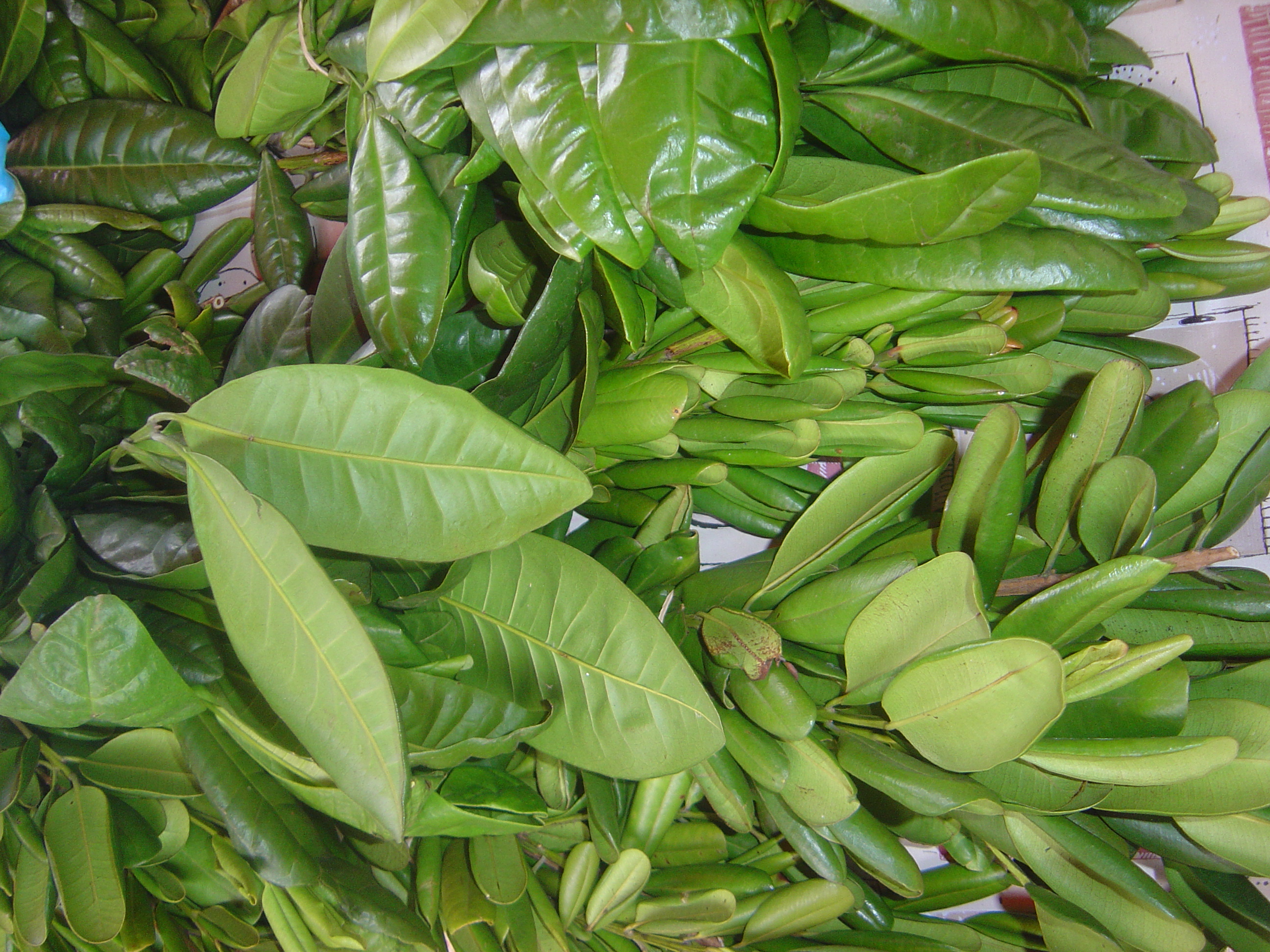 Pimenta dioica leaves on sale as a spice, on Réunion Island